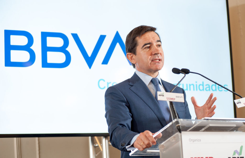 Carlos Torres Vila, at APIE